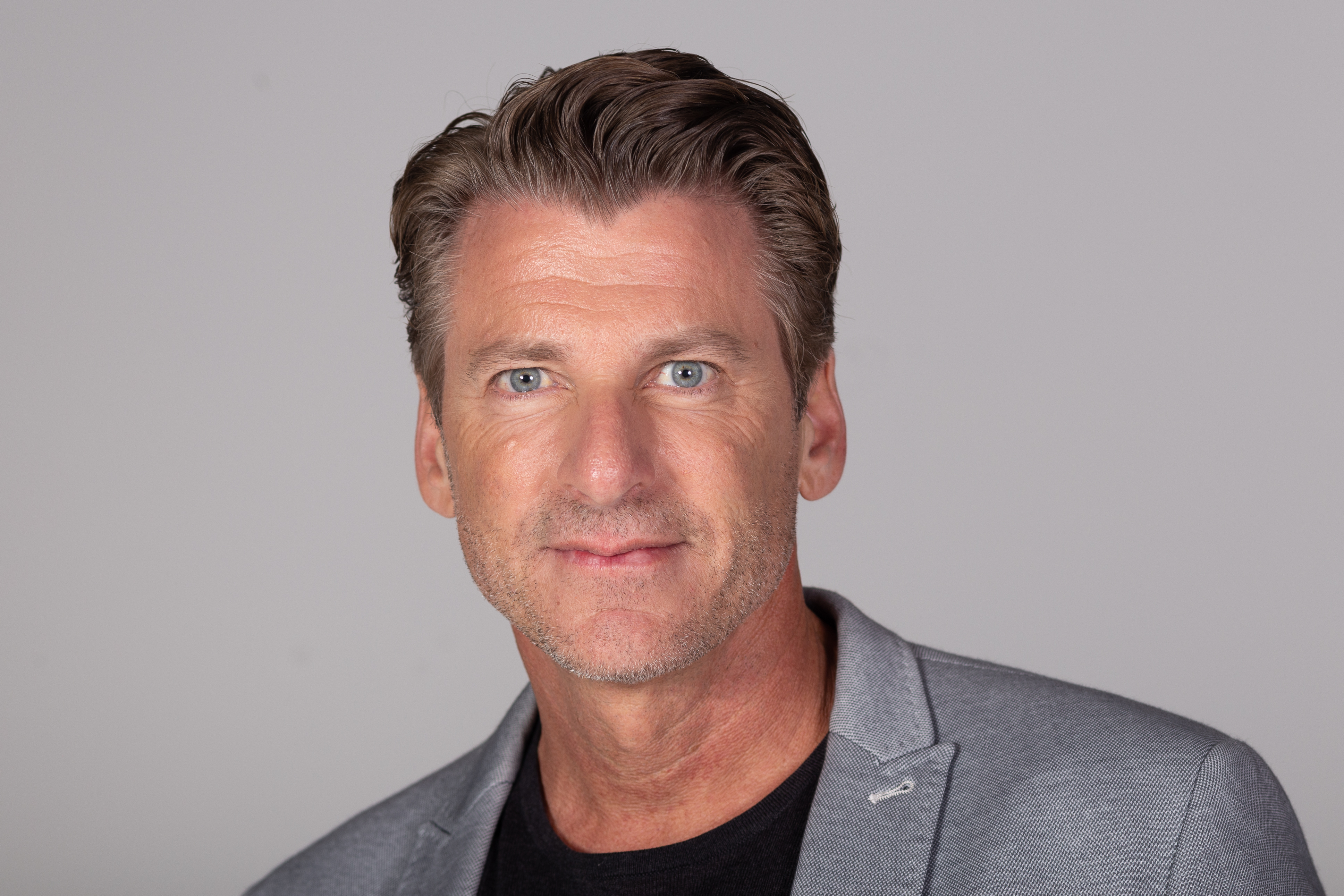 TV, ARD, cast "Rote Rosen"; Herbert Ulrich